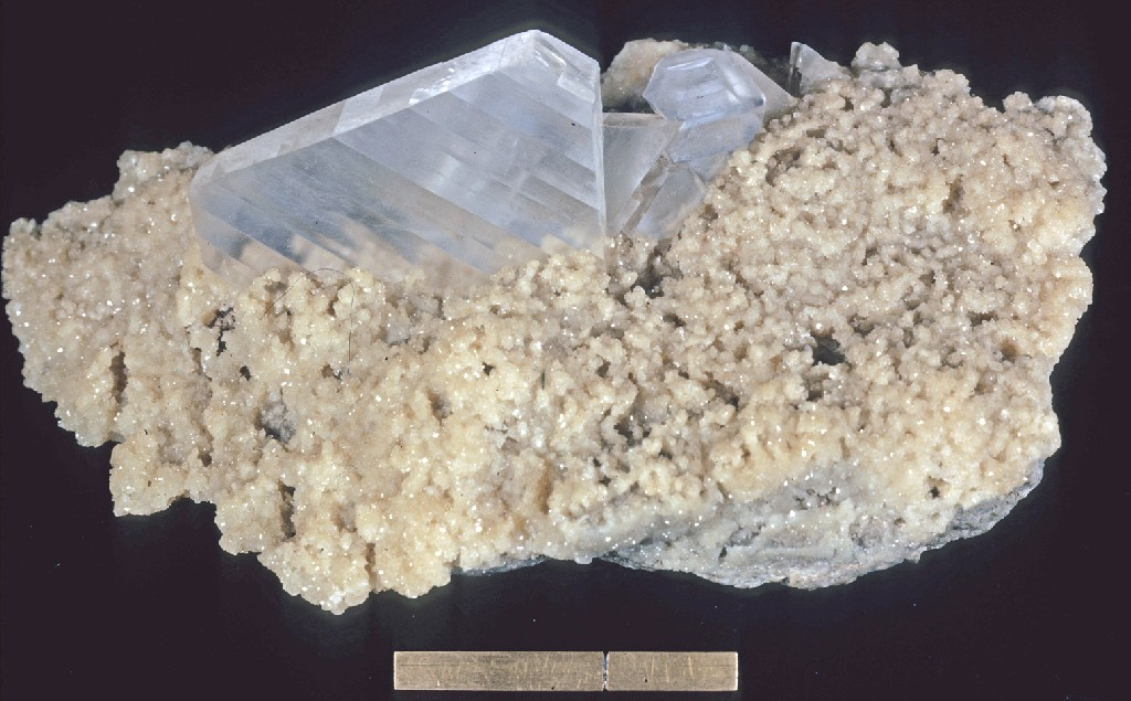 Anhydrite Locality: Simplon Railway tunnel (north section), Simplon pass area, Brig, Wallis (Valais), Switzerland Anhydrite crystals on matrix. Specimen is from the collection of Bill Pinch, 1980. Scale at bottom of image is an inch with a rule at one cm.